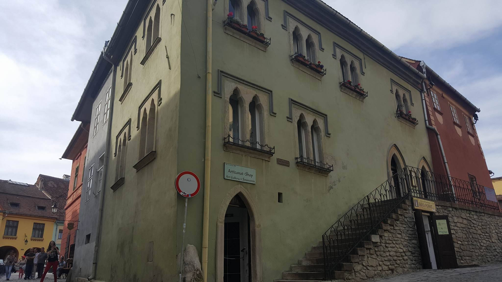 Casa Venetiana